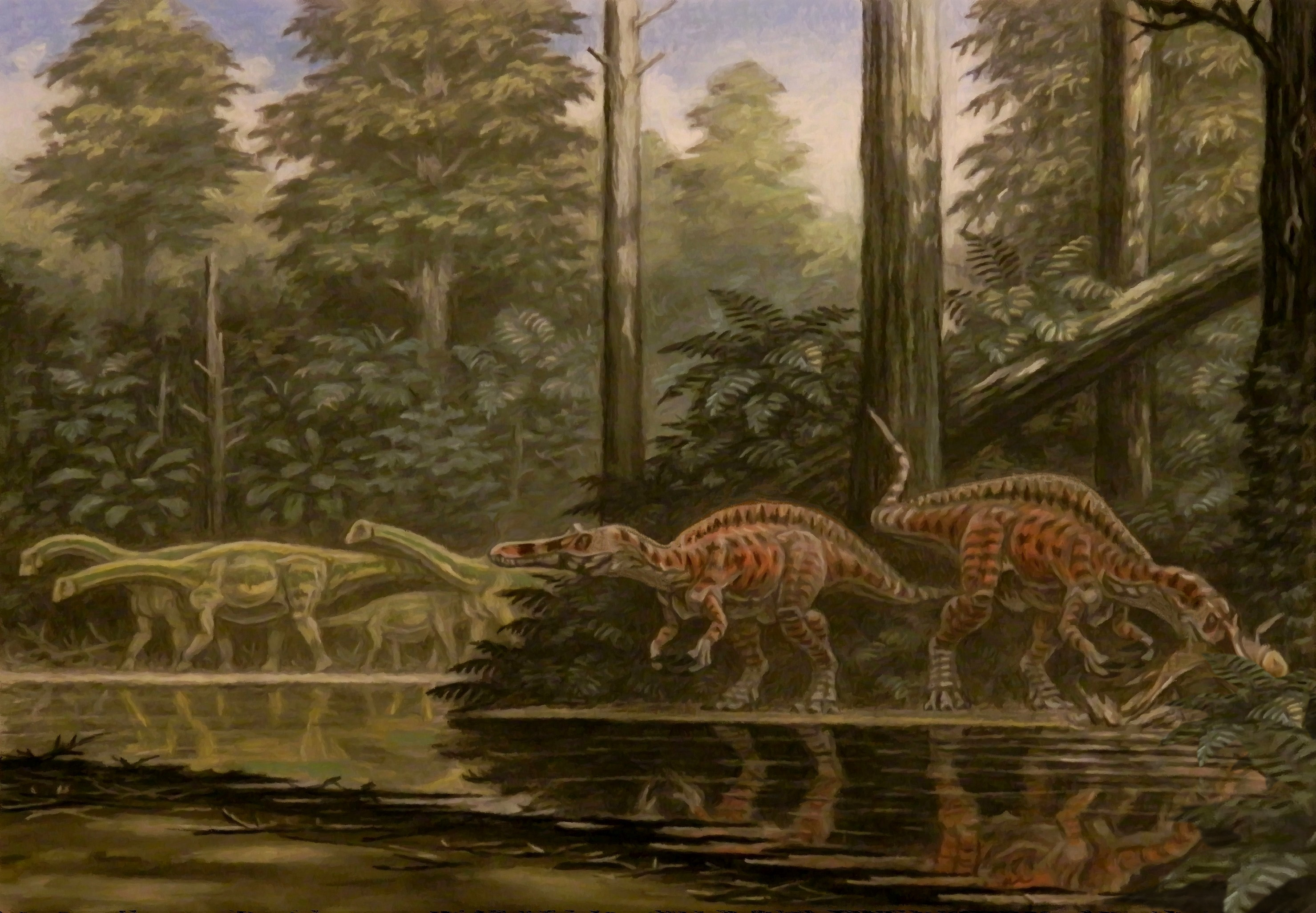 Restoration of a Nigersaurus herd and two fishing spinosaurs in the Early Cretaceous Erlhaz Formation.